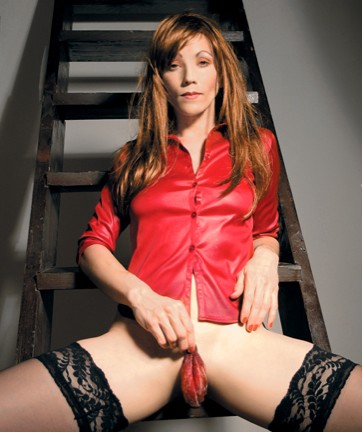 Photograph by Heide Hatry